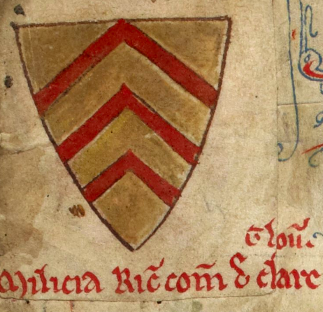 Arms of Richard, count of Clare referring to his knighting